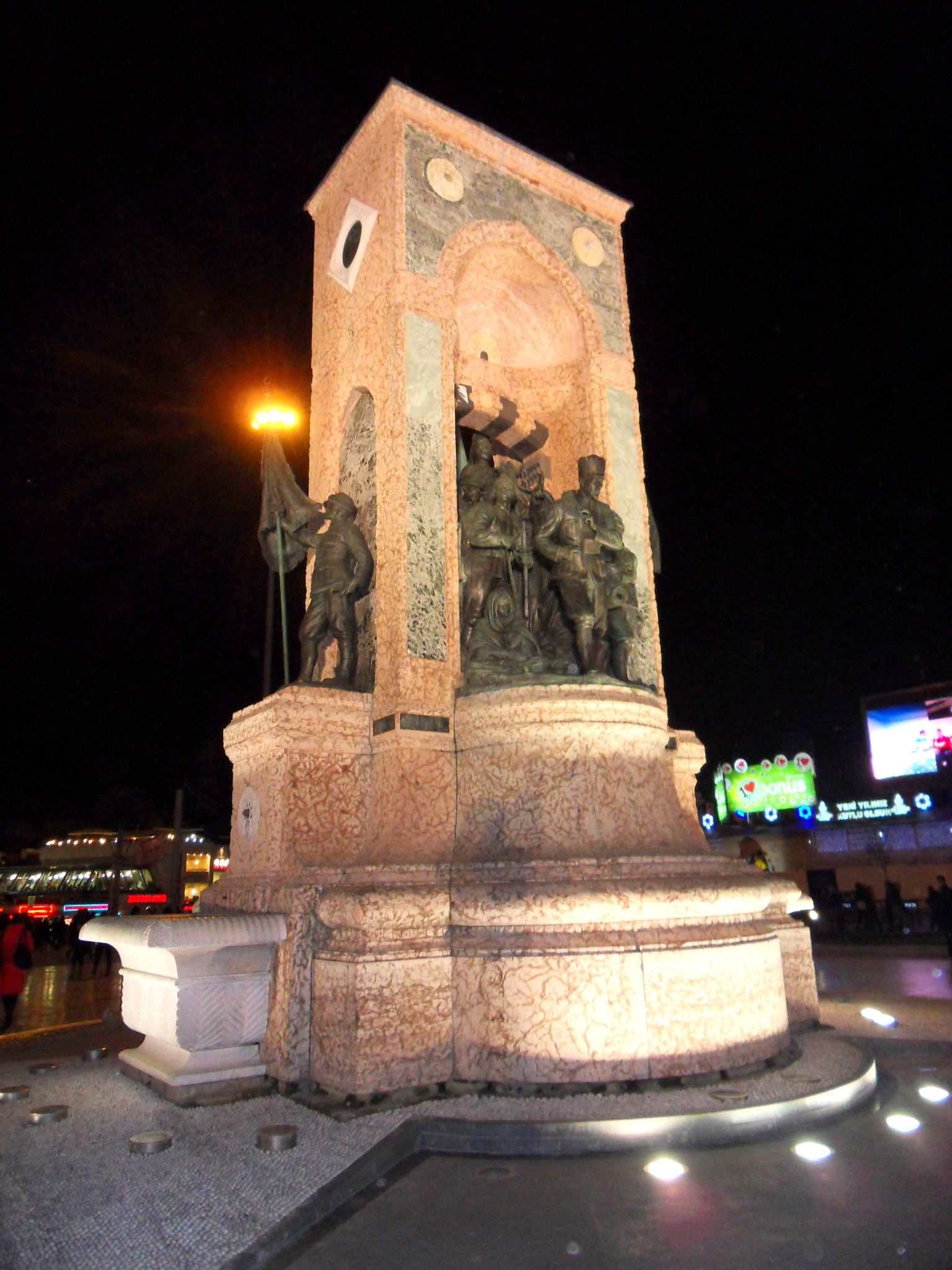 Taksim Republic Statue